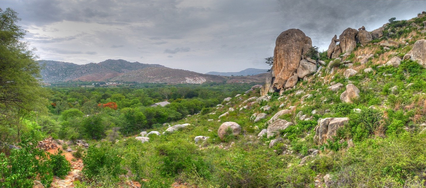 HDR panorama over Rishi Valley School from eastern rocky hill. Madanapalli, Andhra Pradesh.